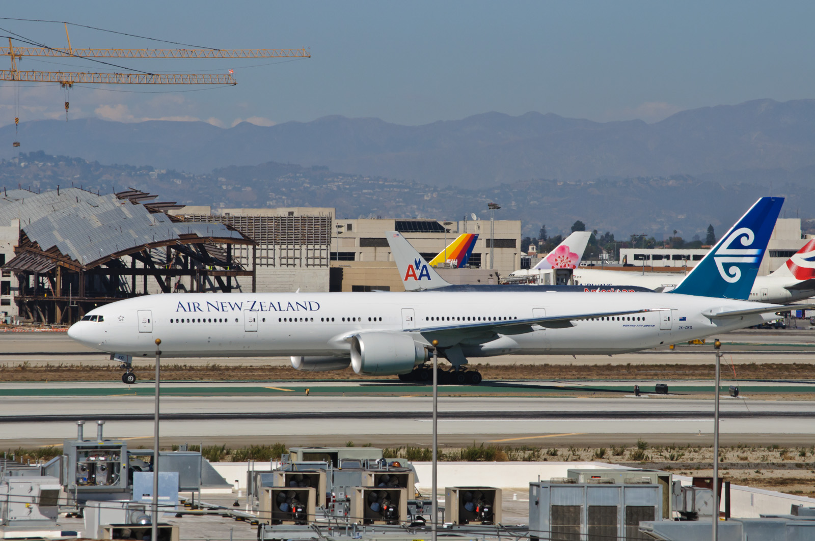 This aircraft is commonly seen on the Auckland - Los Angeles - London Heathrow route. ZK-OKO, Boeing 777-300ER